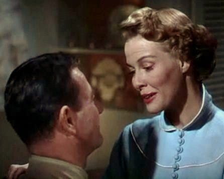 Janis Carter (with John Wayne) in Flying Leathernecks - trailer (cropped screenshot)